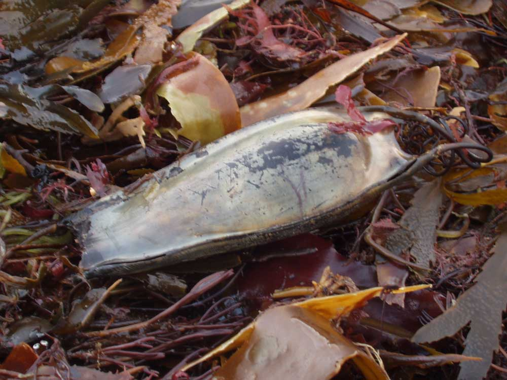 Photo of a "mermaid's purse" on Trefor beach, Wales.